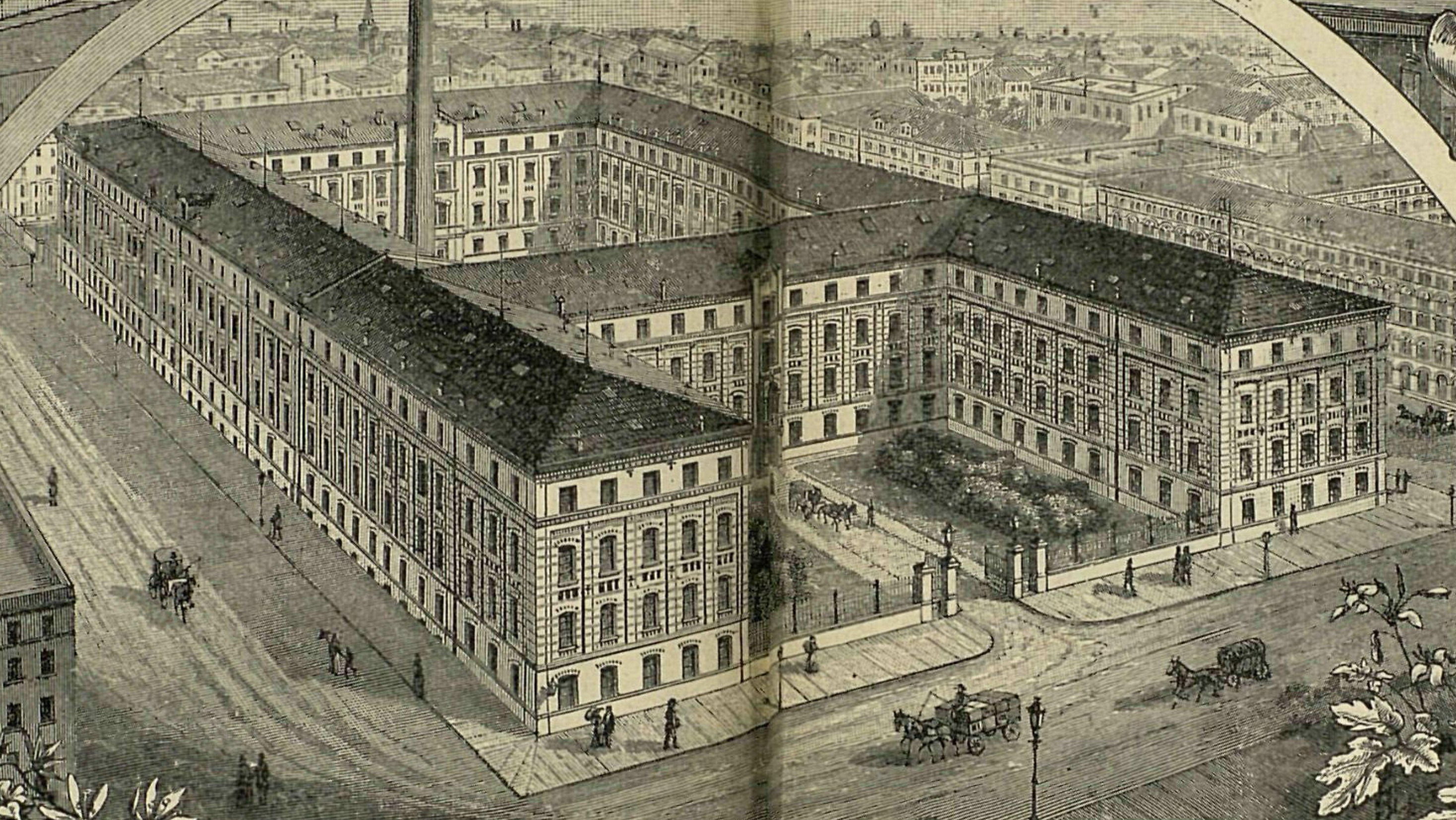 Building of Bibliographisches Institut. Picture from Yuzhakov Big Encyclopedia (1900—1907)